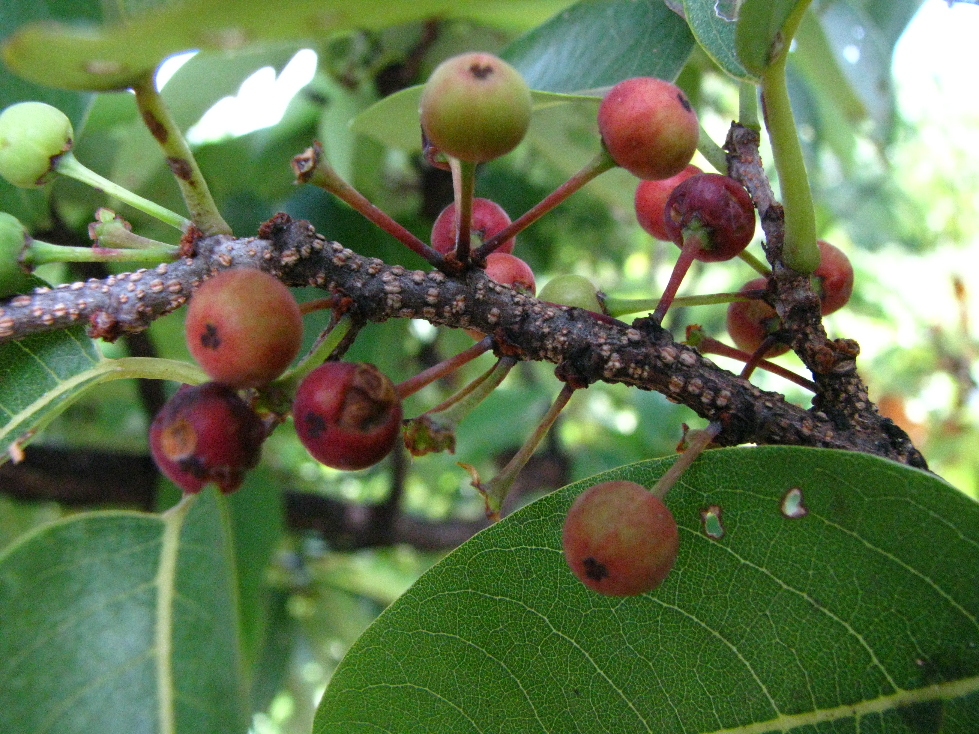 Mēhamehame Phyllanthaceae Endemic to the Hawaiian Islands Very rare; Endangered Oʻahu (Cultivated) Mature fruits are about the size of a pea. Early Hawaiians used the very hard wood to make weapons. The main cause in their declining numbers is due to the black twig borer (Xylosandrus compactus).